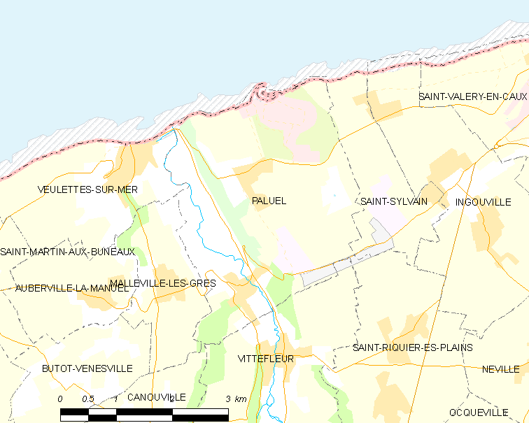 Map of French municipality Paluel